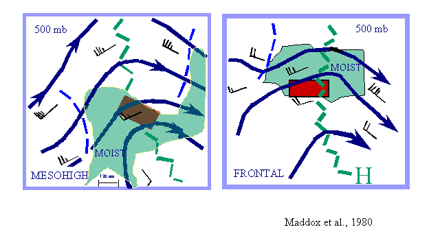 500 mb circulation during an MCC event according to Maddox et al. 1980